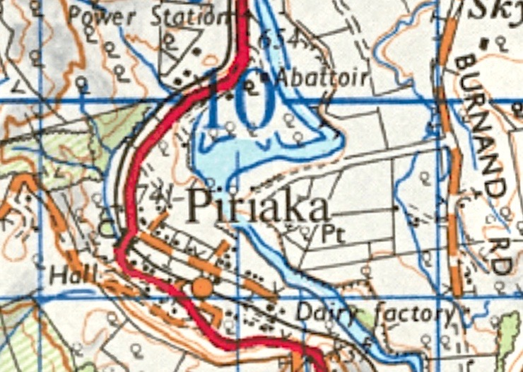 Piriaka map Sheet N101 1972